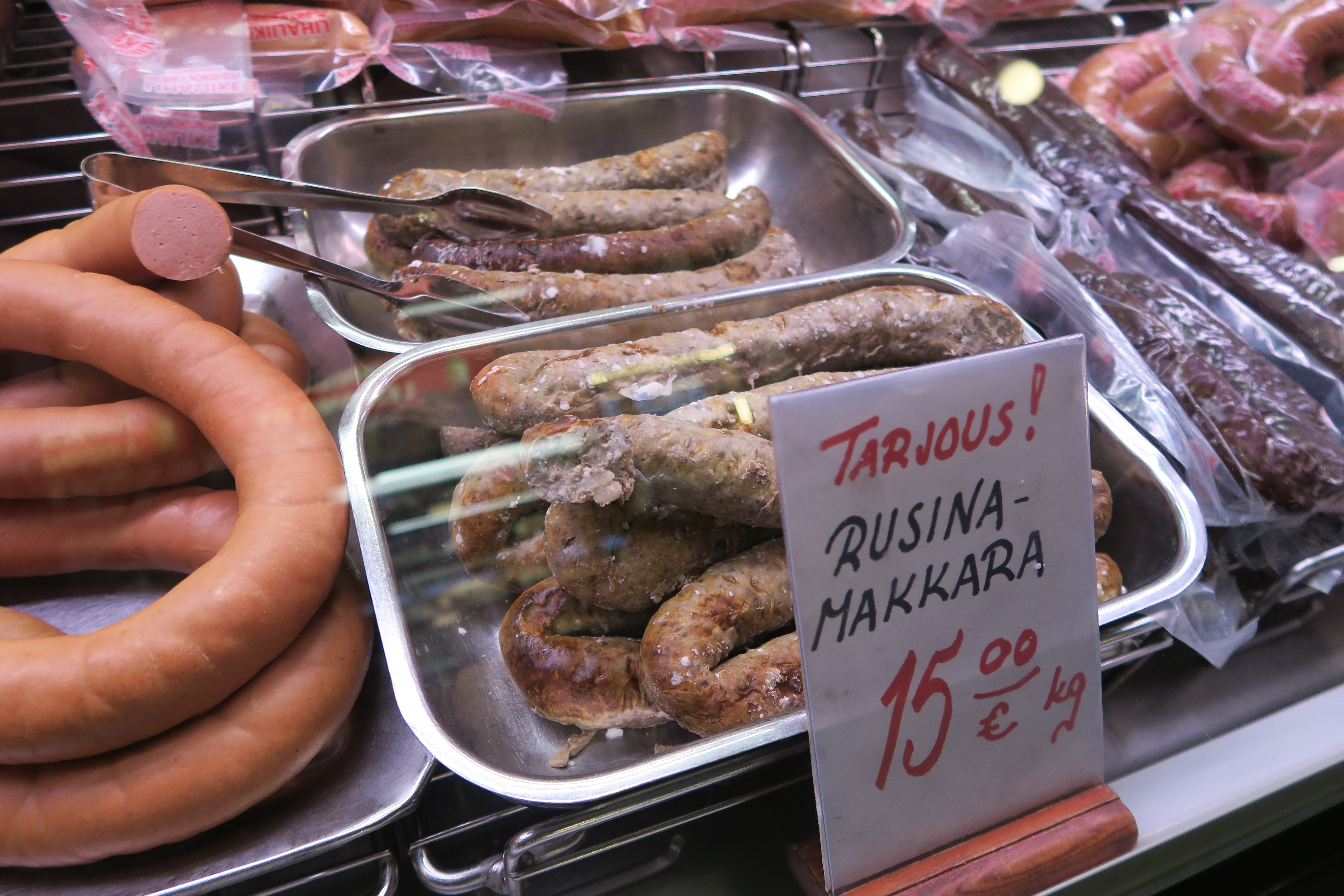 Raisin sausage is tradtional food in Turku